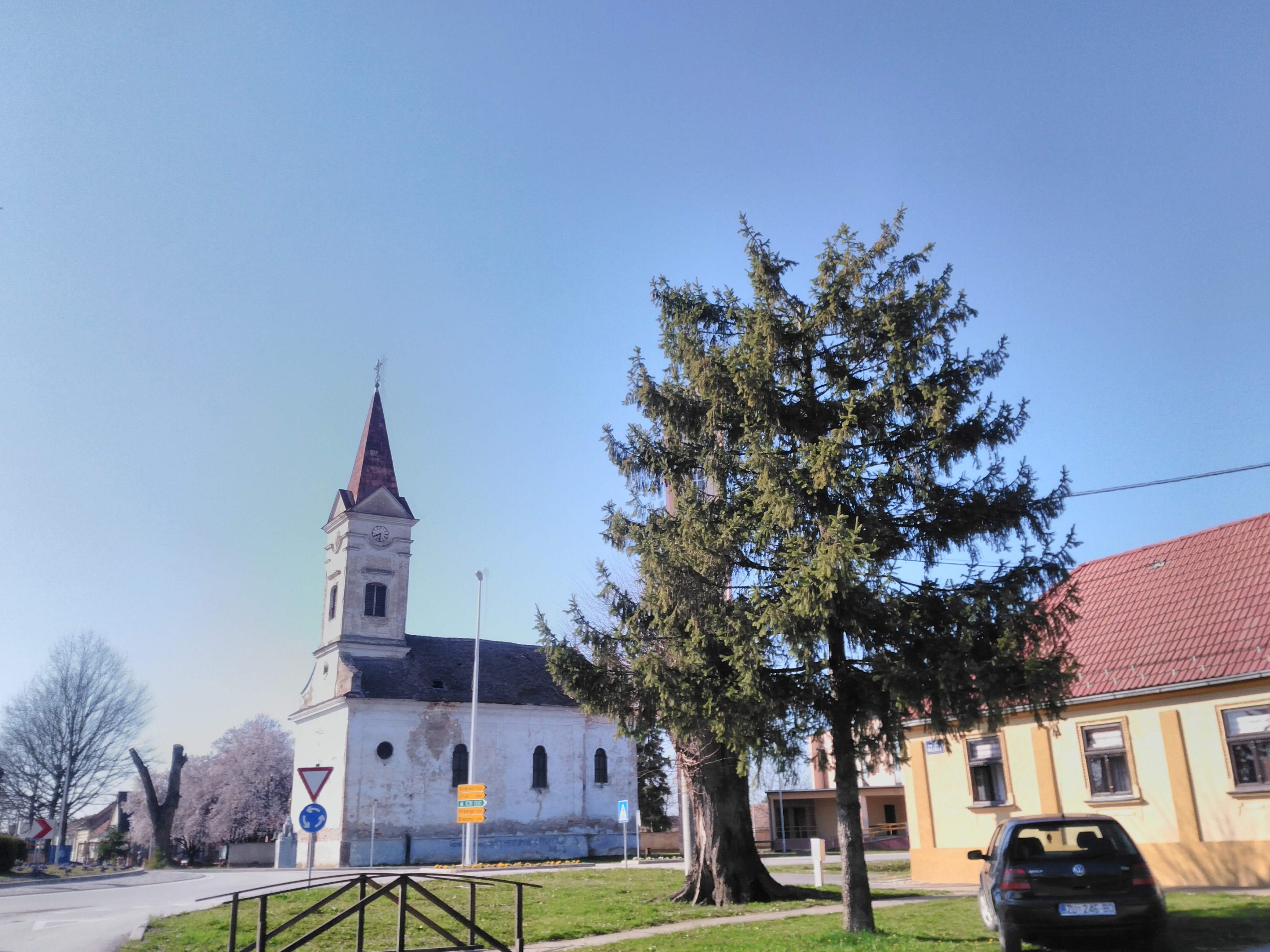 Church in the center of the village of Gunja in eastern Croatia.